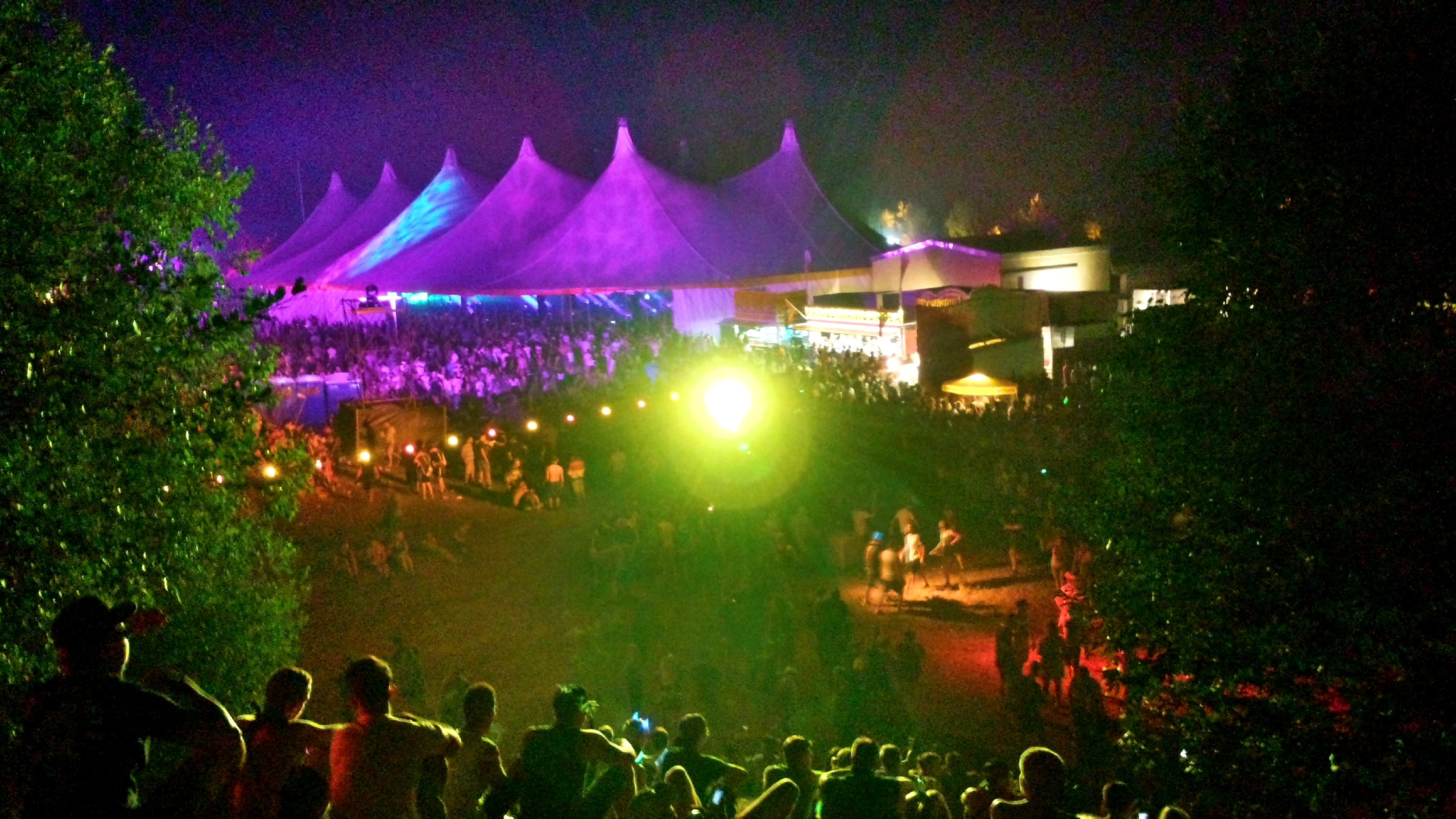 Centurie Circus at Germans Techno Festival Nature One 4. August 2018 (former Pydna (missile base))